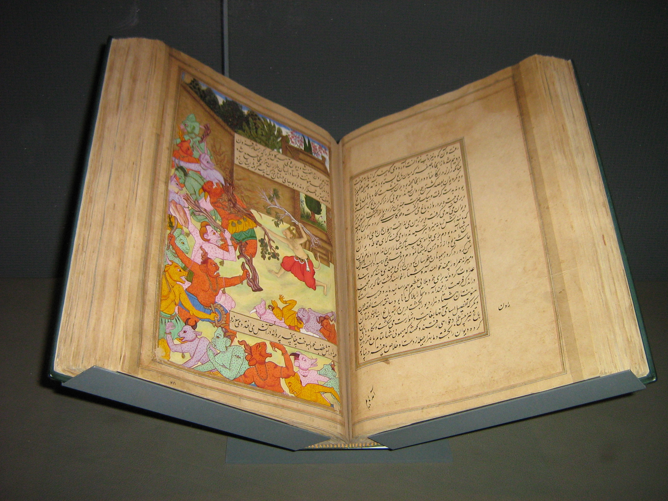 Ramayana in Arabic language. The book was written by the end of 16th century